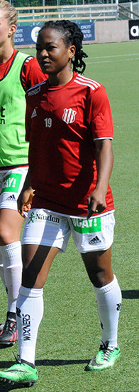 Piteå IF's Nigerian player Francisca Ordega